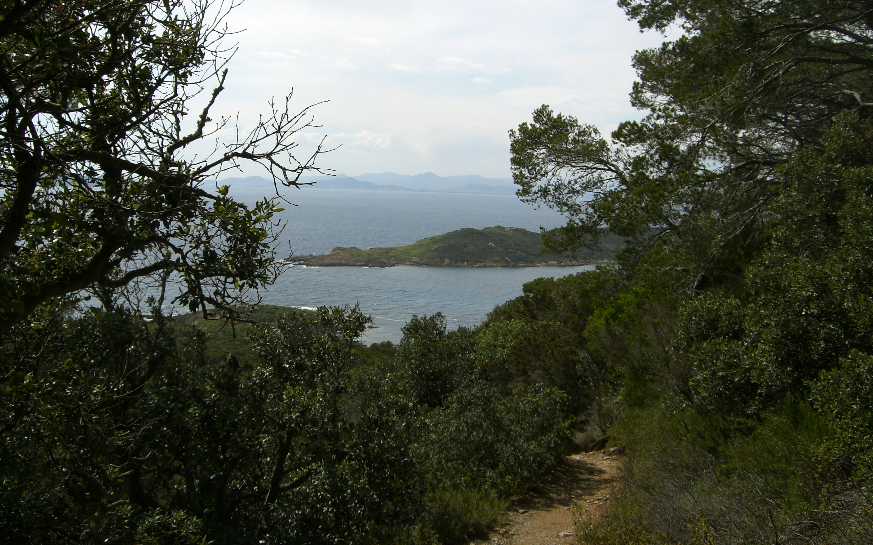 Port Cros national park, France